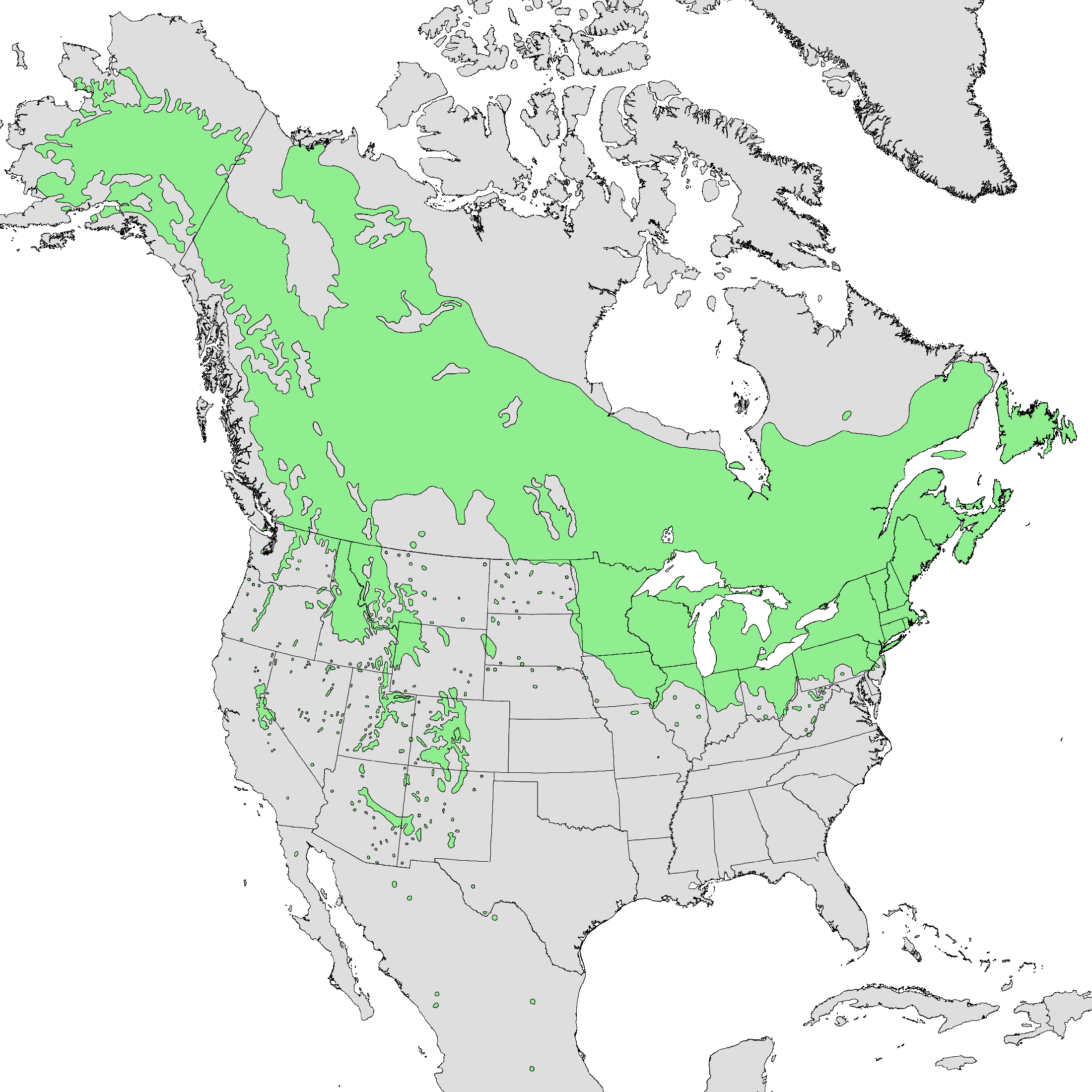 Range map of Populus tremuloides